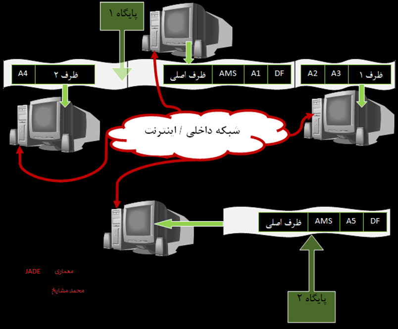 JADE Architecture by Mohammad Mashayekh